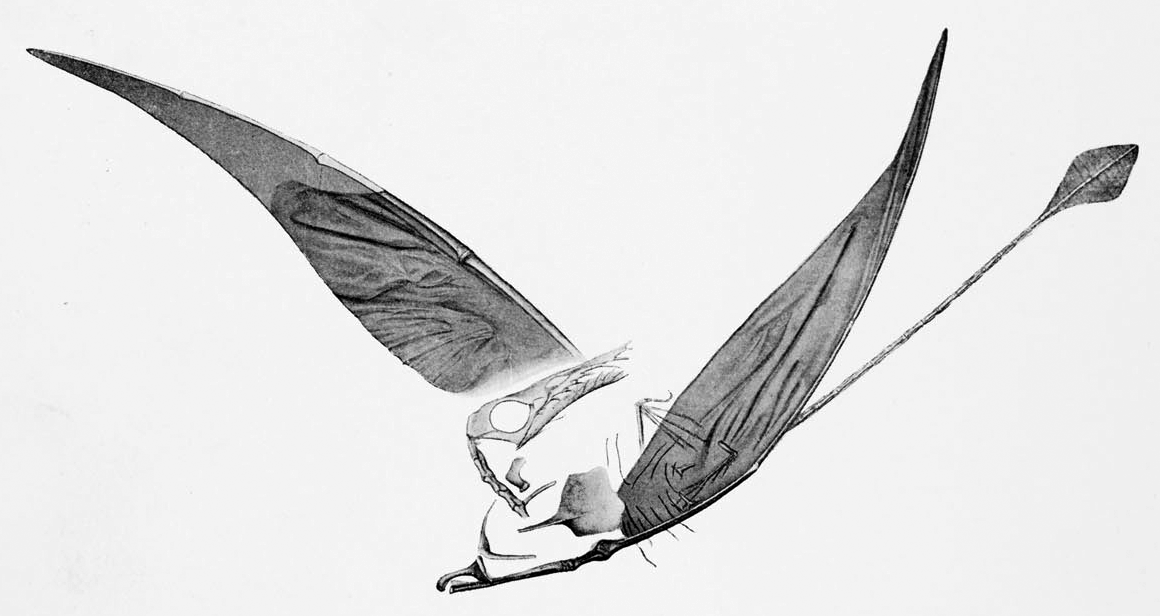 Original caption: Fig. 47. Rhamphorhynchus phyllurus showing the preservation of the wing membranes. From the Lithographic slate of Eichstadt [sic], Bavaria.